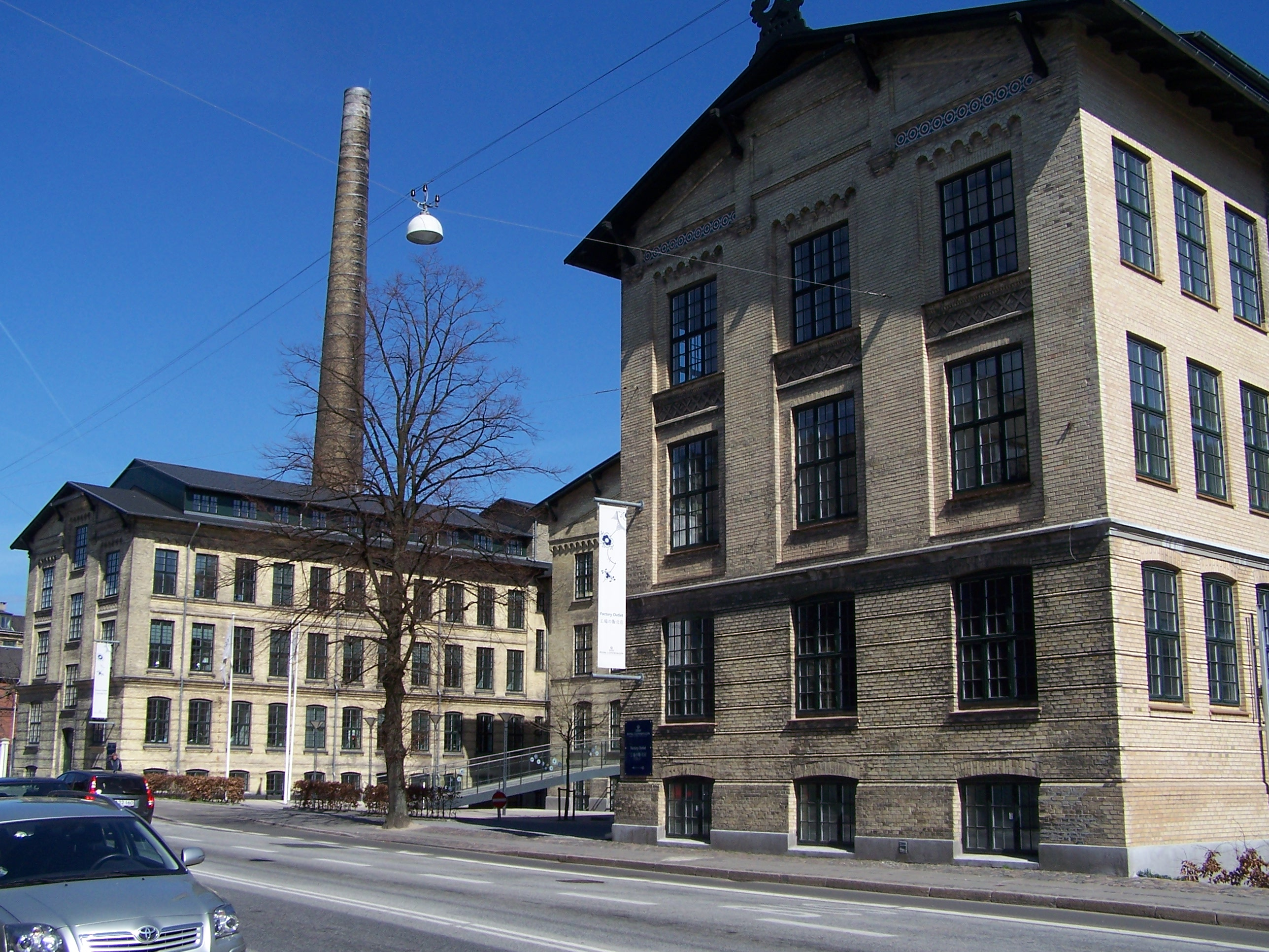 Former Royal Copenhagen porcelain factory, now facotry outlet